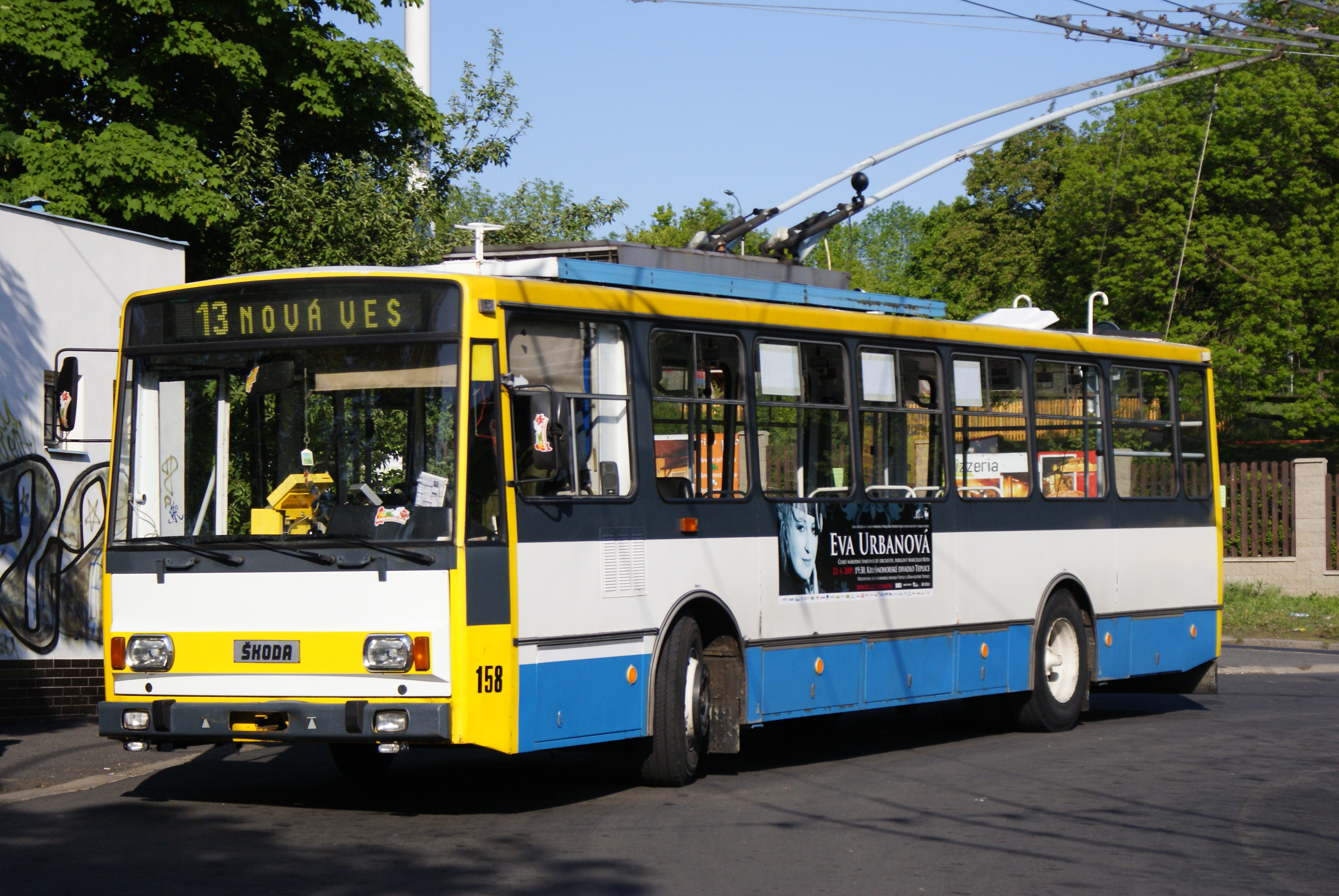 Škoda 14TrM trolleybus in Teplice, Czech Republic